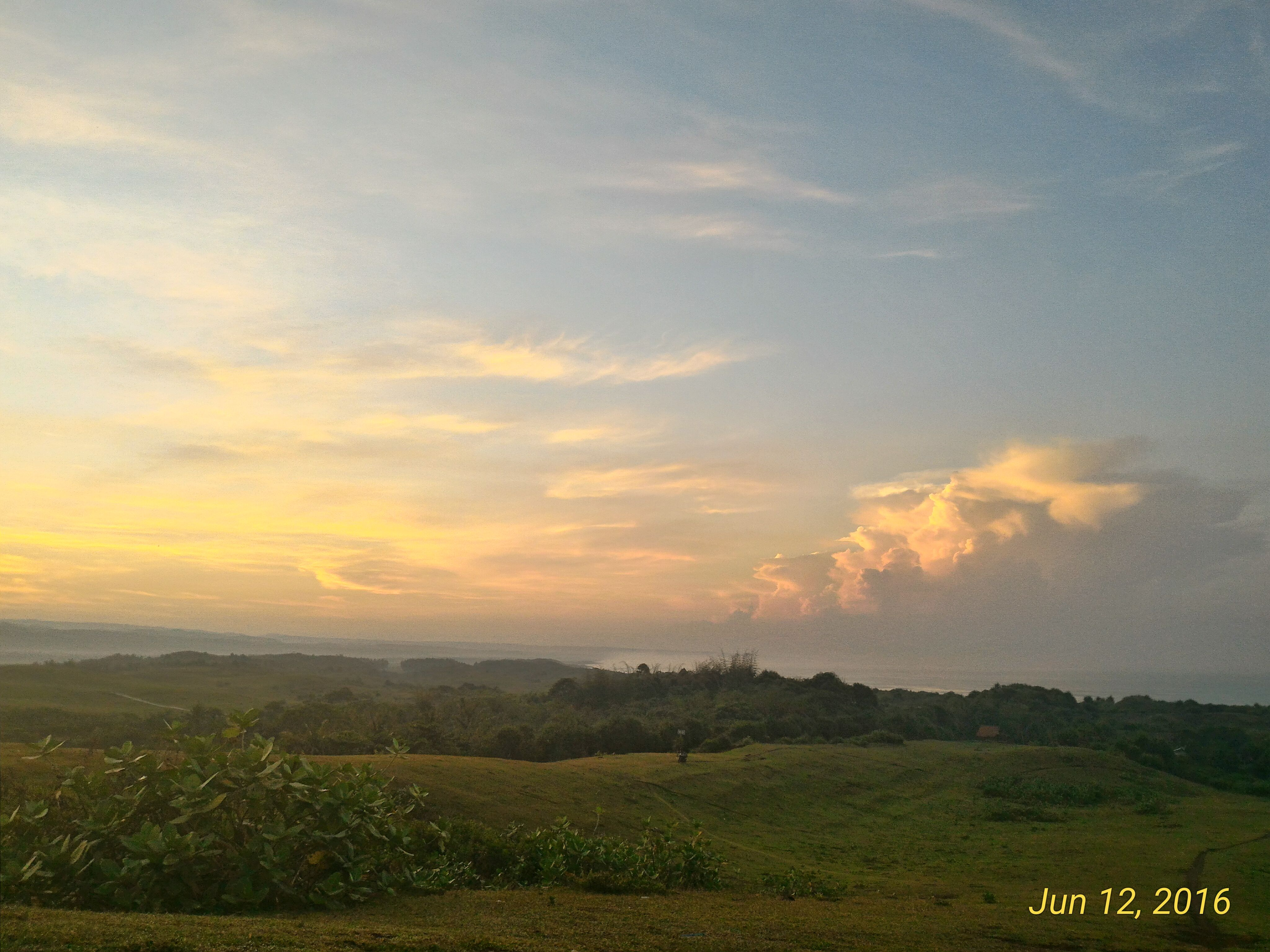 clouds over the Indian Ocean seen from the hill telletubies mancagahar village, Pameungpeuk